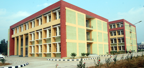 Rajpura